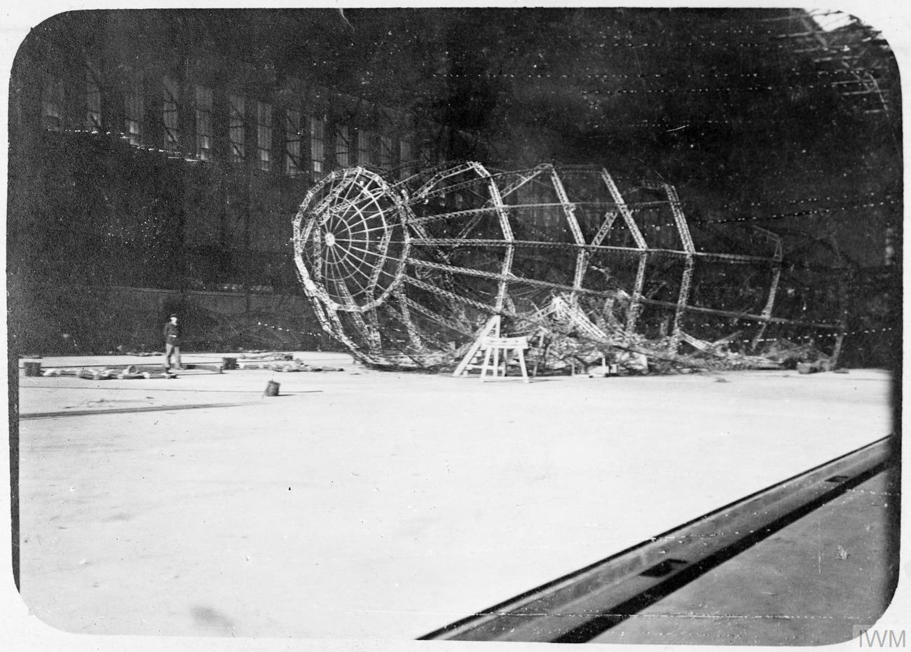 Wreckage of 2 Zeppelins LZ 99 (L 54) and LZ 108 (L 60) in their hangers at Tondern.